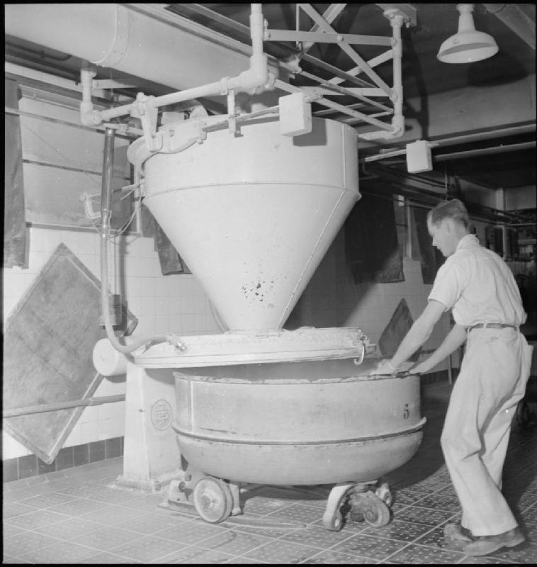 A Modern Bakery- the work of Wonder Bakery, Wood Green, London, England, UK, 1944 A worker at the Wonder Bakery, Wood Green, operates the automatic flour weighing machine.